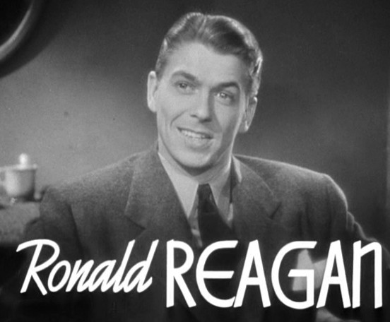 Cropped screenshot of Ronald Reagan from the trailer for the film Dark Victory (1939).